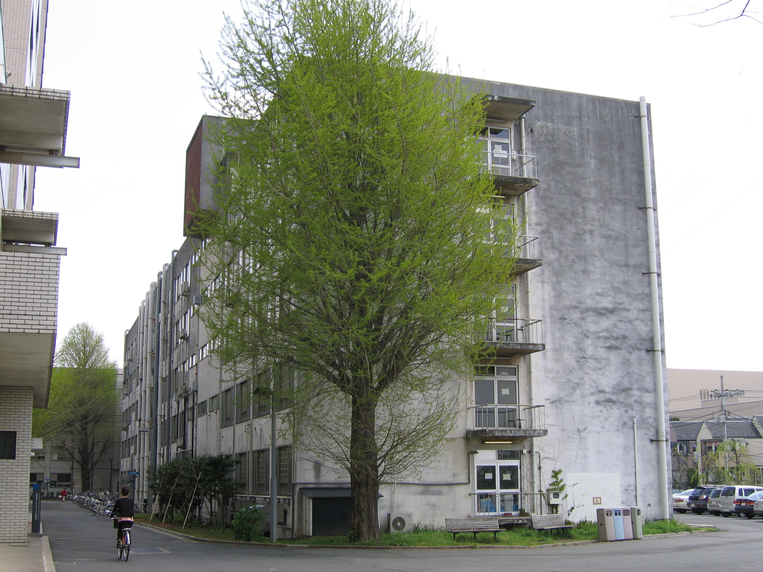 South No.5 Building, Tokyo Institute of Technology, Meguro-Ota, Tokyo, Japan